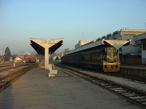 The railway station at Tuzla, Bosnia and Herzegovina. (Općina Tuzla) A EMD G16 diesel locomotive, also classified as JŽ 661, is at the station with two passenger carriages.